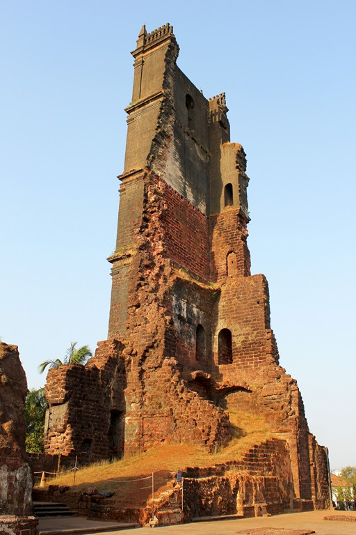 Church of St. Augustine